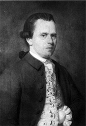 1765 oil portrait of John Pinney, plantation owner and sugar merchant from Bristol